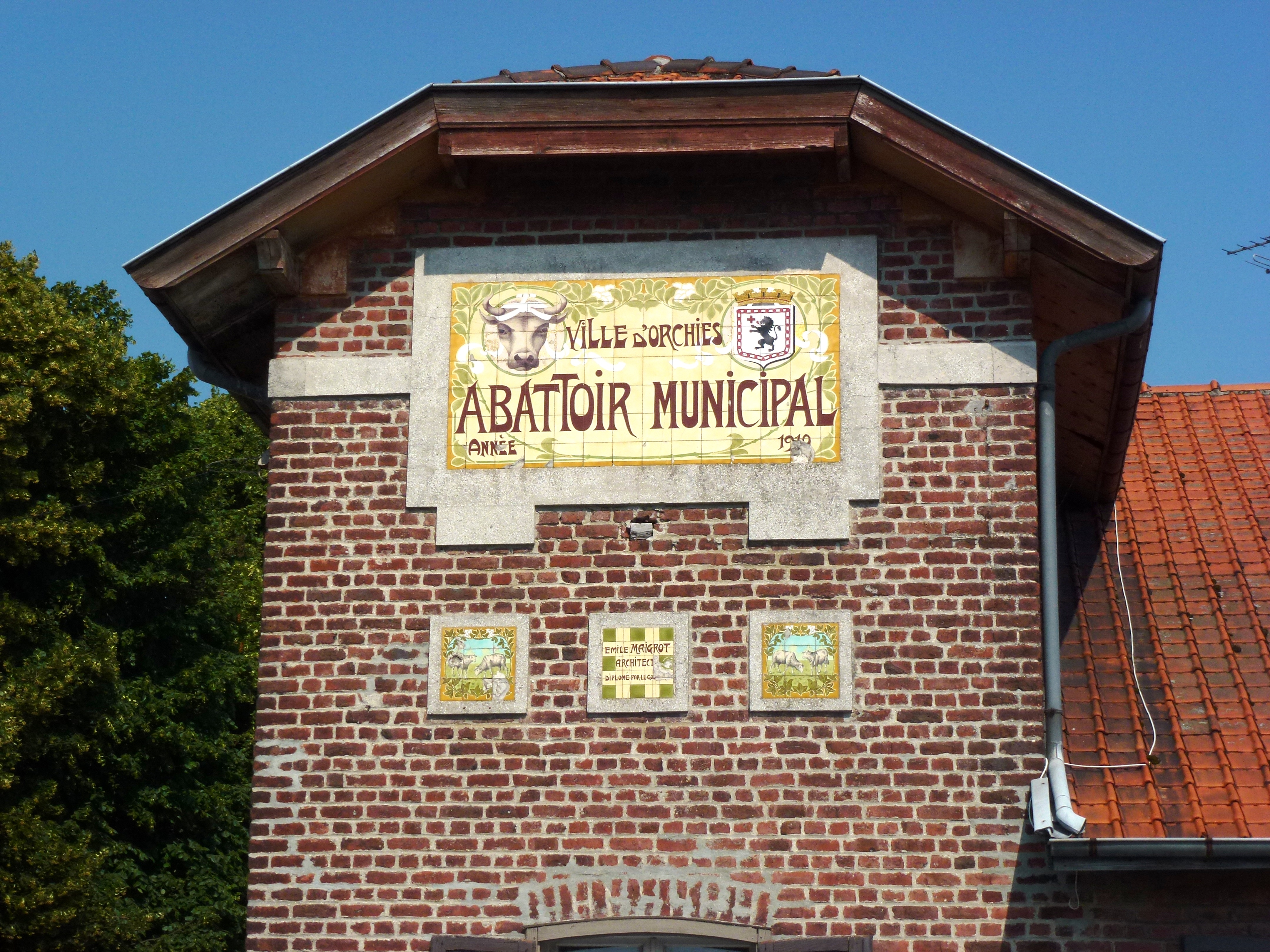 Orchies (Nord, Fr) abattoir communal